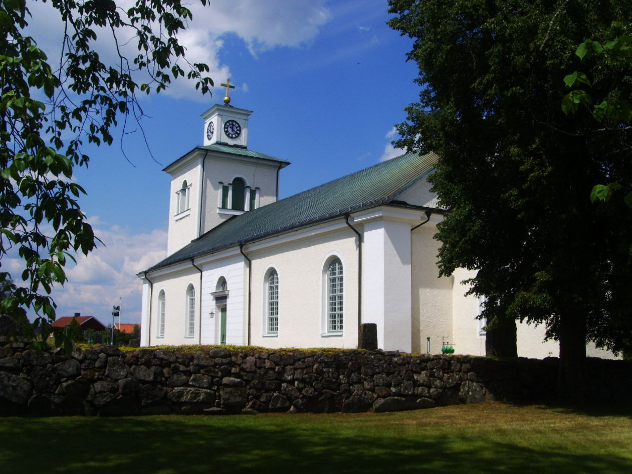 The church in Målilla-Gårdveda in Hultsfred, Sweden.